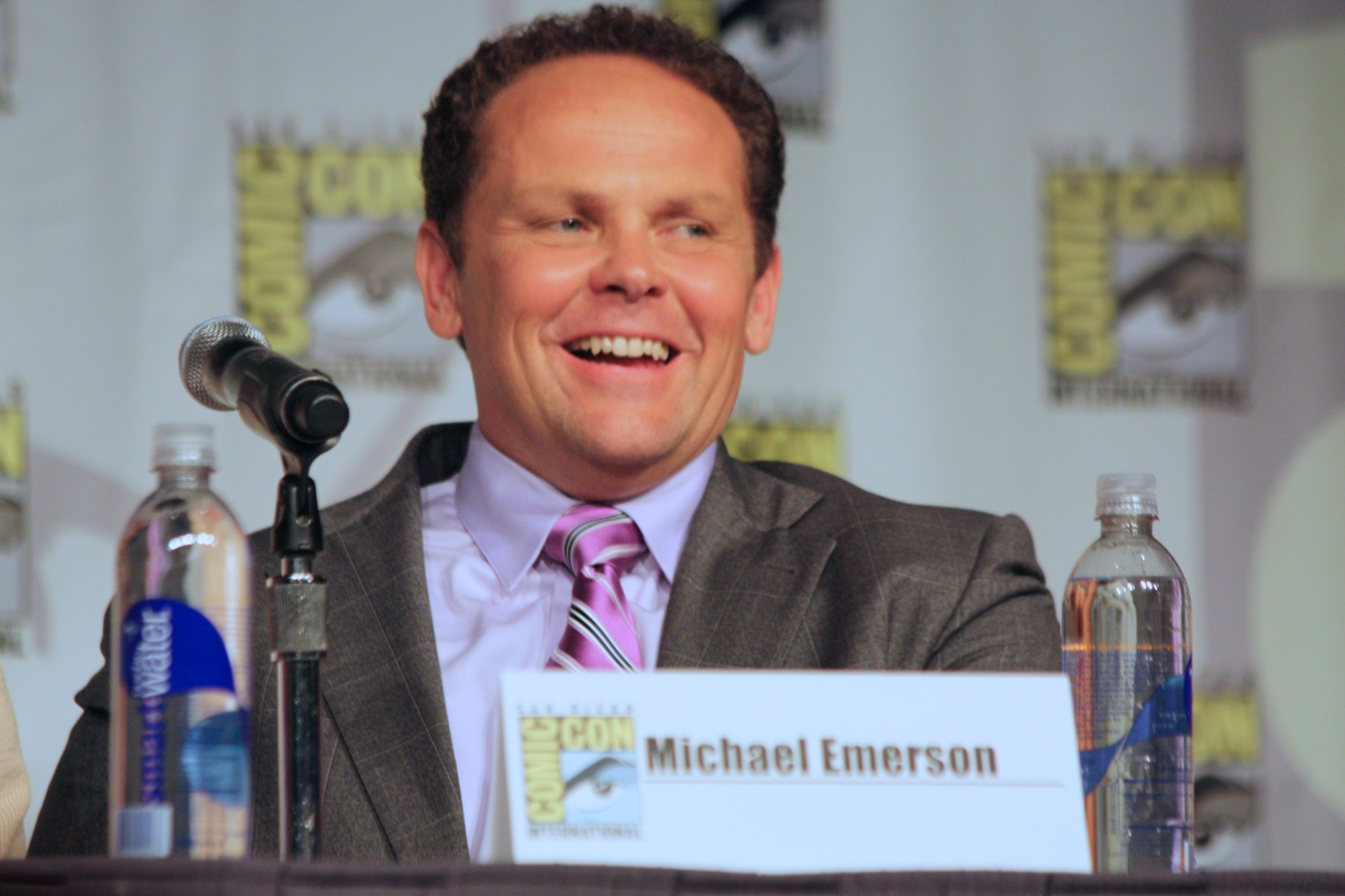 Kevin Chapman (Lionel) Person of Interest Panel at the 2014 San Diego Comic Con